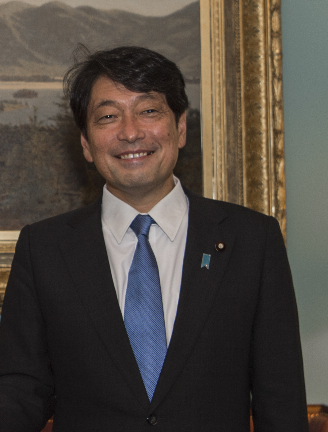 Secretary of Defense Jim Mattis hosts a bilateral meeting for Itsunori Onodera, Minister of Defense for Japan, Aug. 16, 2017, at the State Department in Washington, D.C. The bi-lat followed a meeting of the U.S.-Japan Security Consultative Committee.